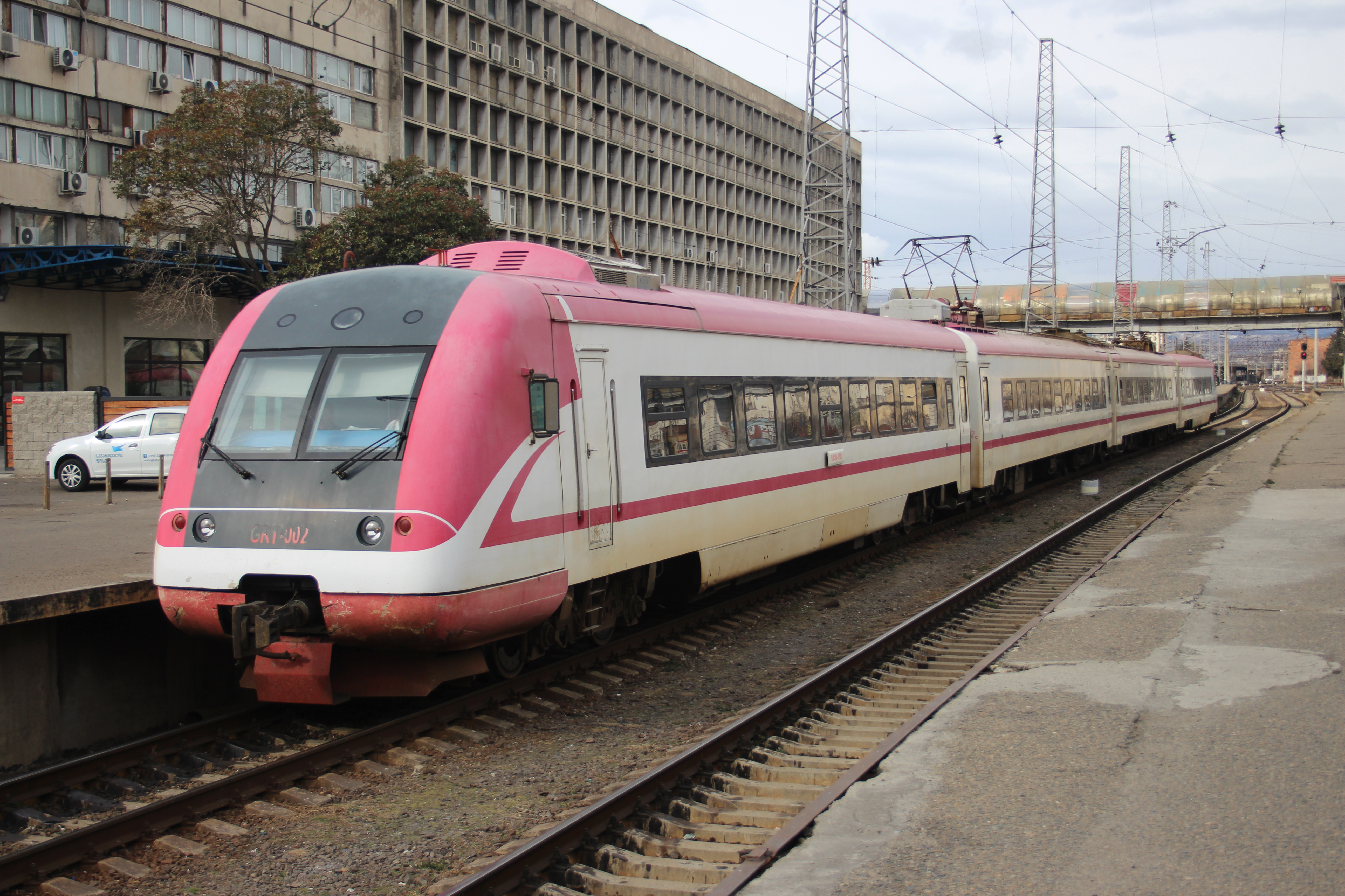 A Georgian Railway VMK class at Tbilisi main station, having worked in from Poti. This is a Chinese CRRC built EMU for Georgian Railway.